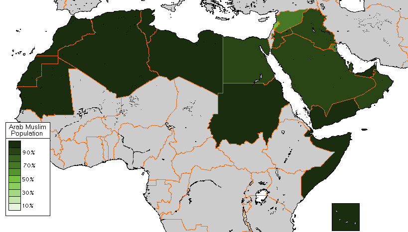 Map indicating Muslim percentages in Arab League members